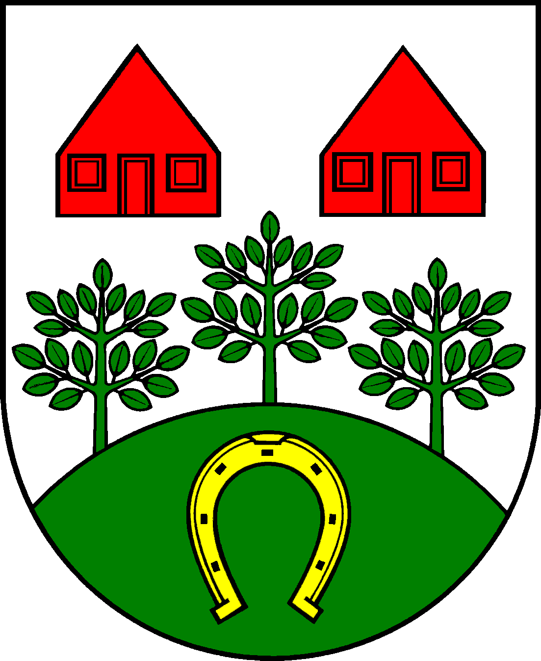 Coat of arms of the municipality Ammersbek in Schleswig-Holstein, Germany.